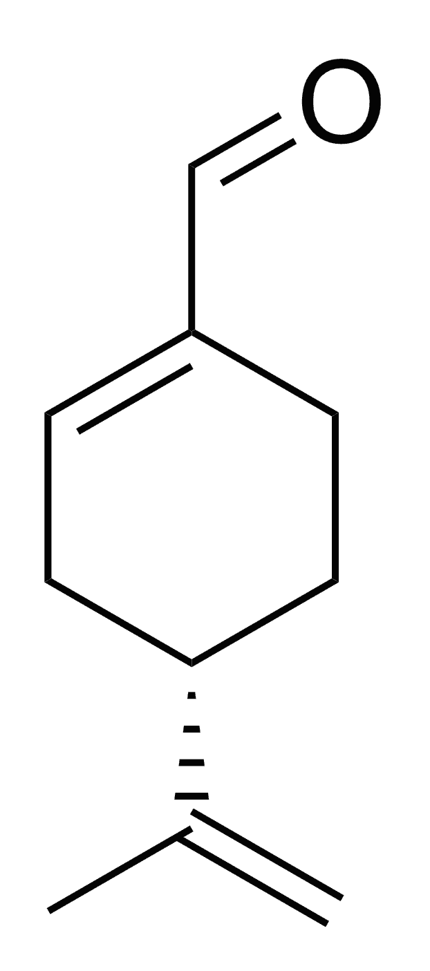 Chemical structure of perillaldehyde